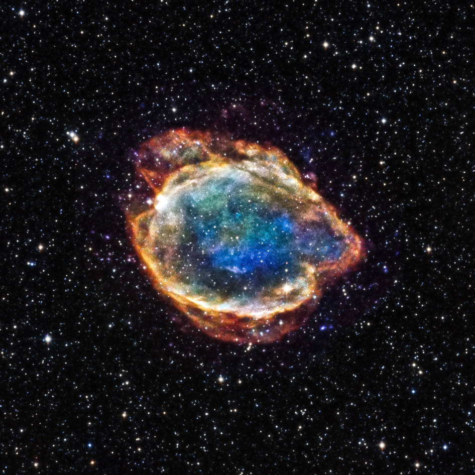 Exploded Star Blooms Like a Cosmic Flower G299 was left over by a particular class of supernovas called Type Ia. Astronomers think that a Type Ia supernova is a thermonuclear explosion – involving the fusion of elements and release of vast amounts of energy − of a white dwarf star in a tight orbit with a companion star. If the white dwarf’s partner is a typical, Sun-like star, the white dwarf can become unstable and explode as it draws material from its companion. Alternatively, the white dwarf is in orbit with another white dwarf, the two may merge and can trigger an explosion.